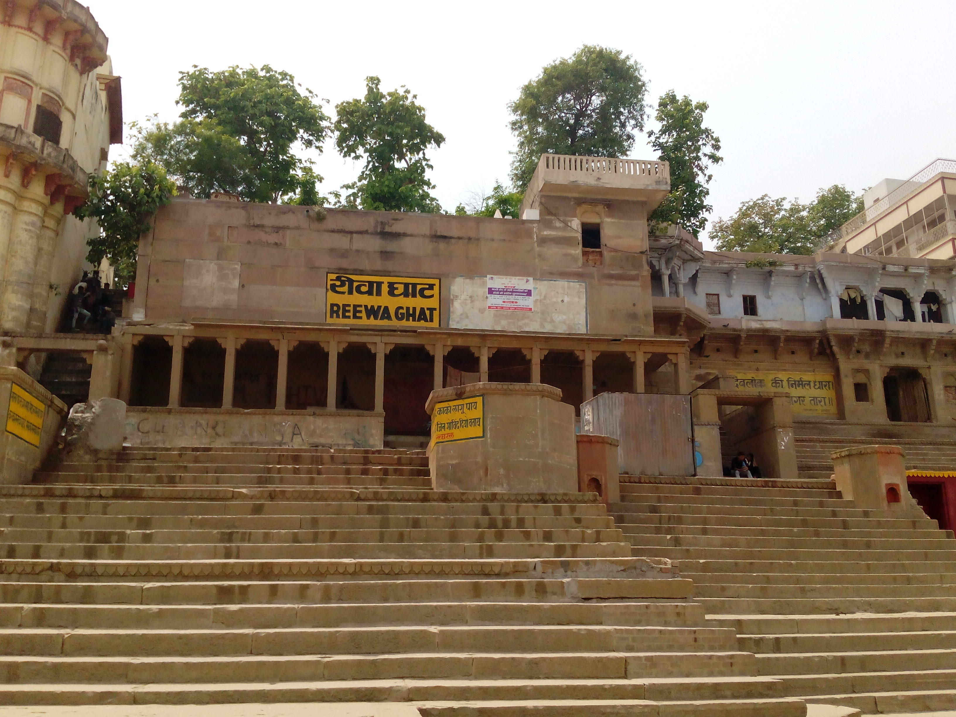 Reewa Ghat (रीवा घाट) - Built by Lala Misir, later King of Reewa bought this ghat so it came to be known after him. It is maintained by B.H.U.